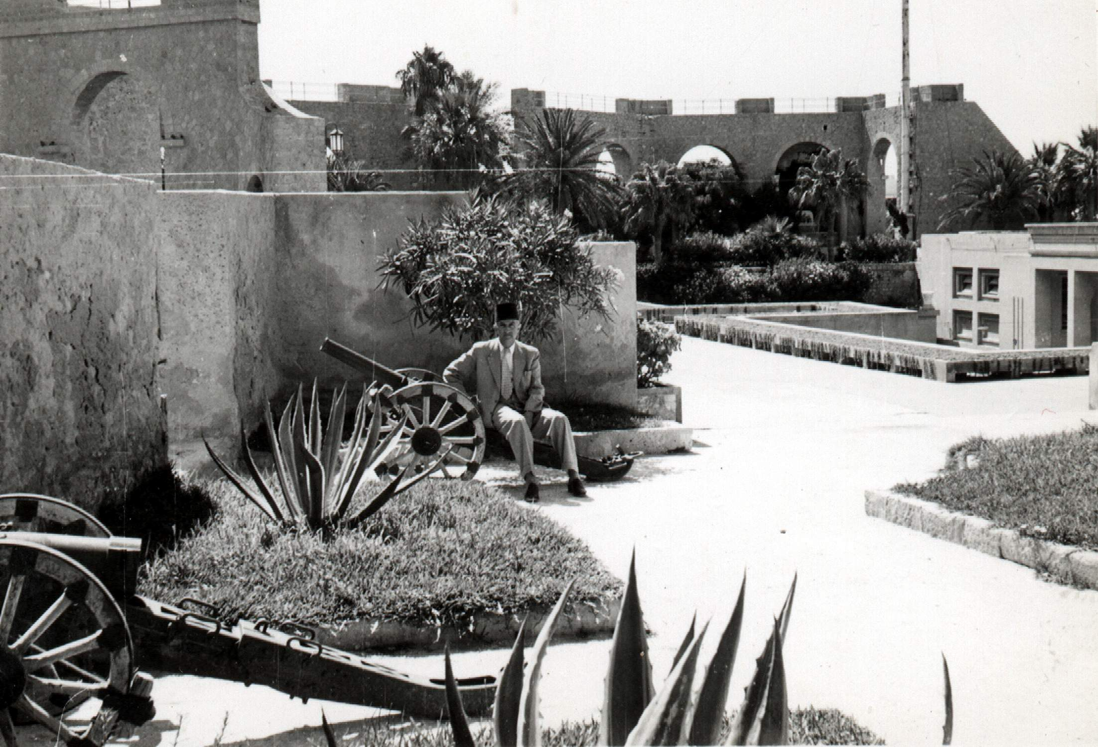 Omar Elwary in Hamra Castle in Tripoli Libya 1958